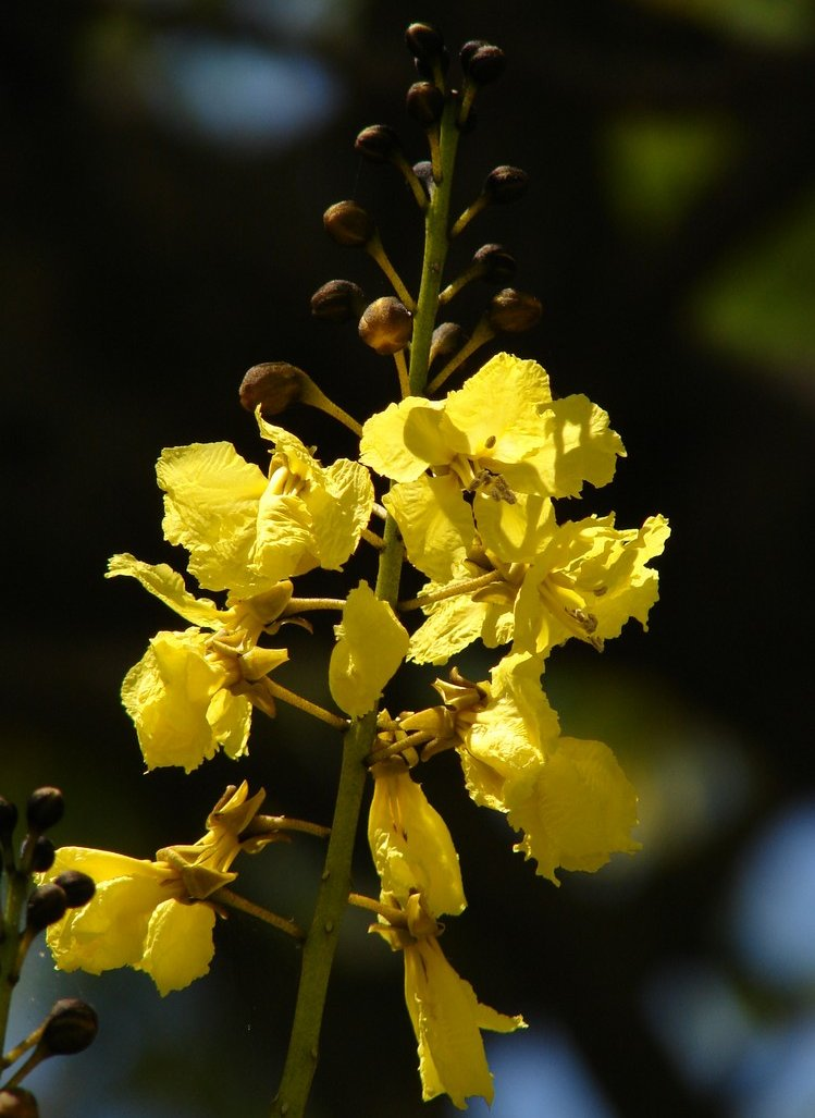 Normaly Guapuruvu (Schizolobium parahyba) is a tall tree with flowers on the very top, but this one was an exclusion, so I could take a closer look. see more of my Guapuruvu photos